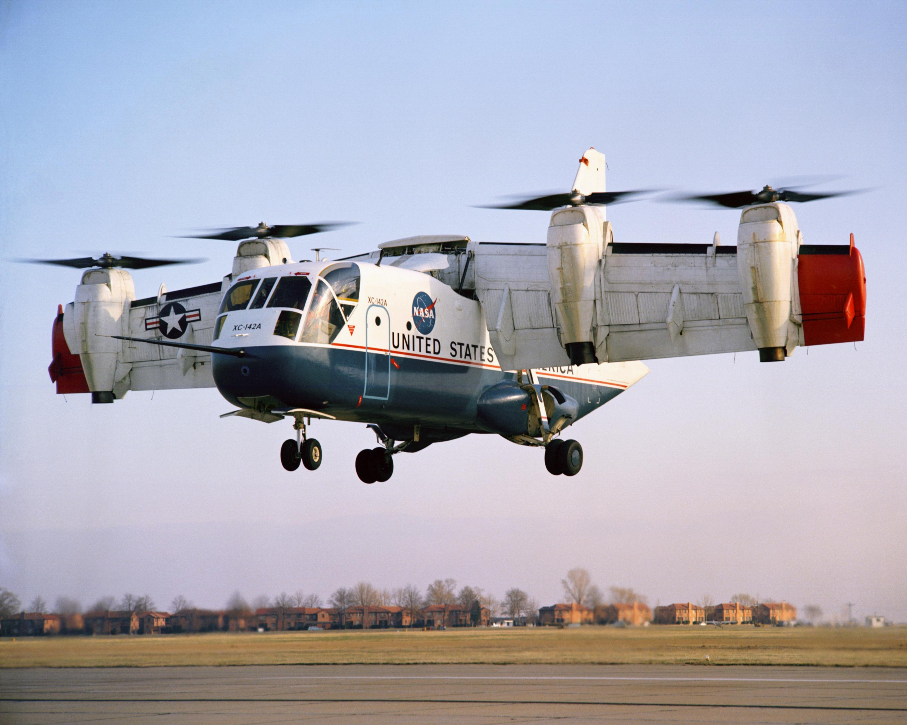 A Ling-Temco-Vought XC-142A tested at the NASA Langley Research Center in 1969. Official description: Ling-Temco-Vought XC-142A: A tilt-wing prototype used in vertical takeoff and landing (VTOL) studies. After vertical takeoff with the wing pivoted upward, the wing pivoted horizontally and the craft would fly as a conventional airplane." Langley was extensively involved in wind-tunnel testing of XC-14A models, and in the actual flight evaluations of the actual airplane. Photograph published in Winds of Change, 75th Anniversary NASA publication, by James Schultz.